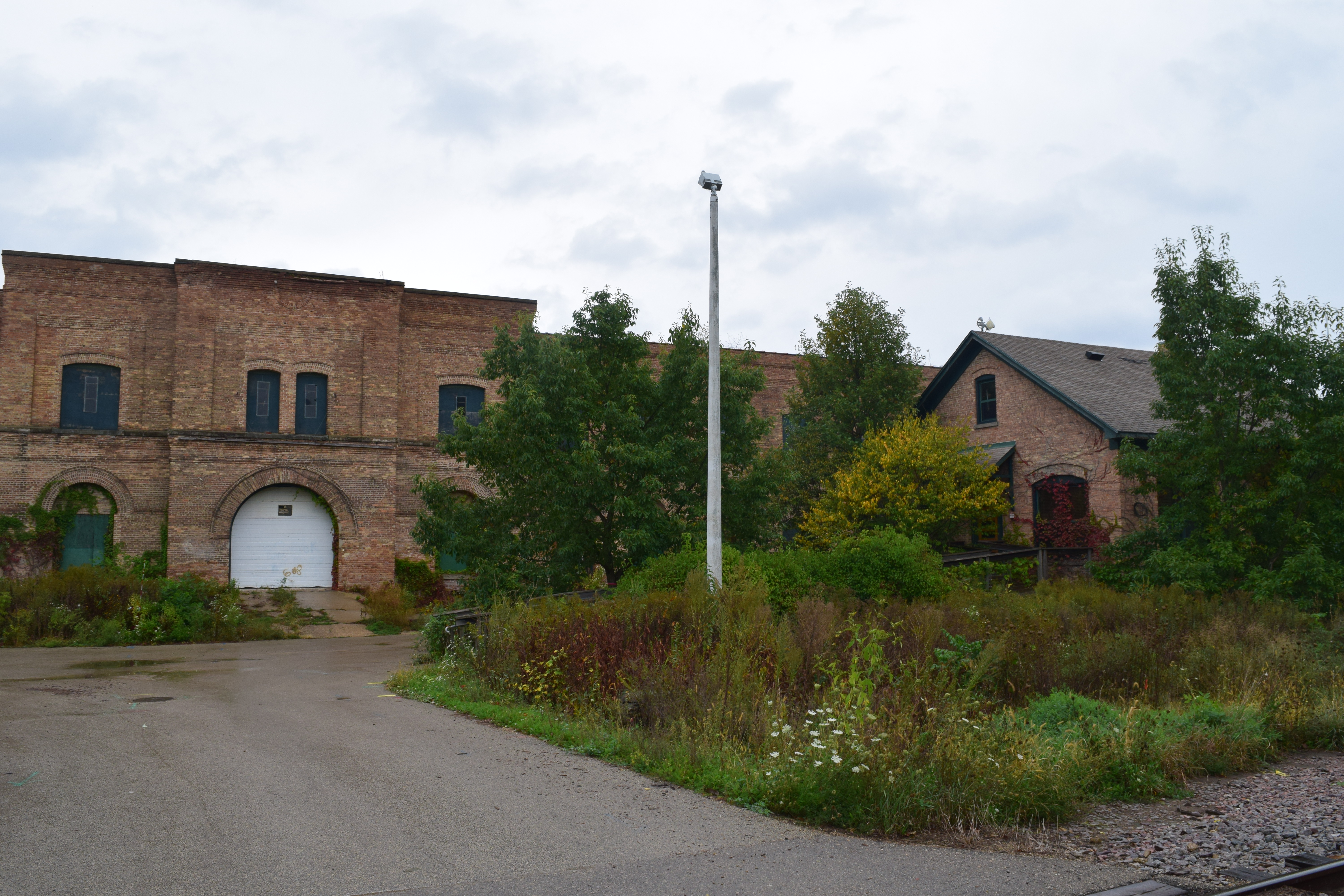 The Garver's Supply Company Factory and Office, also known as the Garver Feed Mill, at 3244 Atwood Ave. in Madison, Wisconsin.